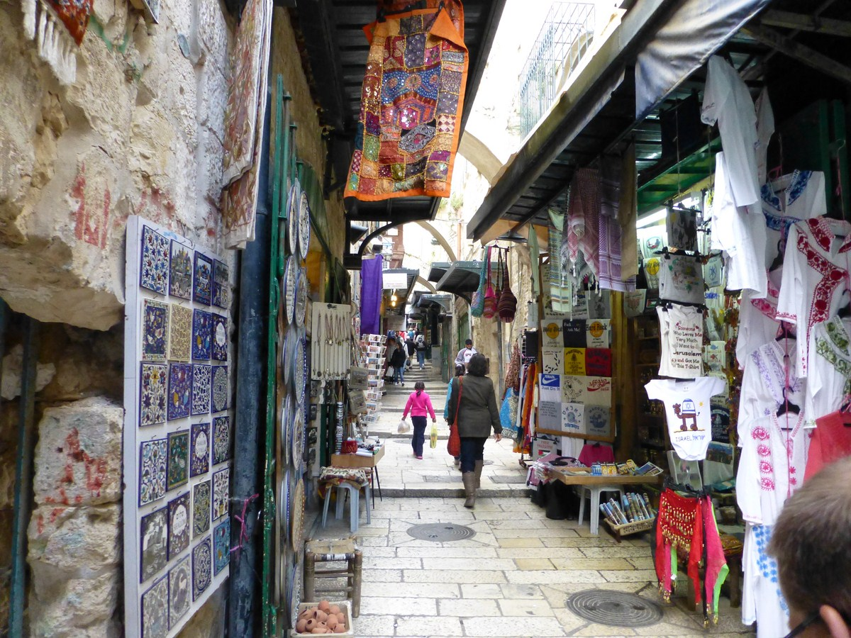 Buzzling street in Muslim Quarter (Jerusalem, 2013) - Via Dolorosa, between 5th and 6th stations looking towards west